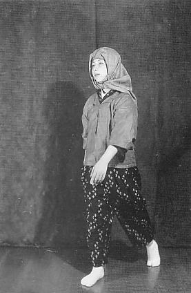 Monpe